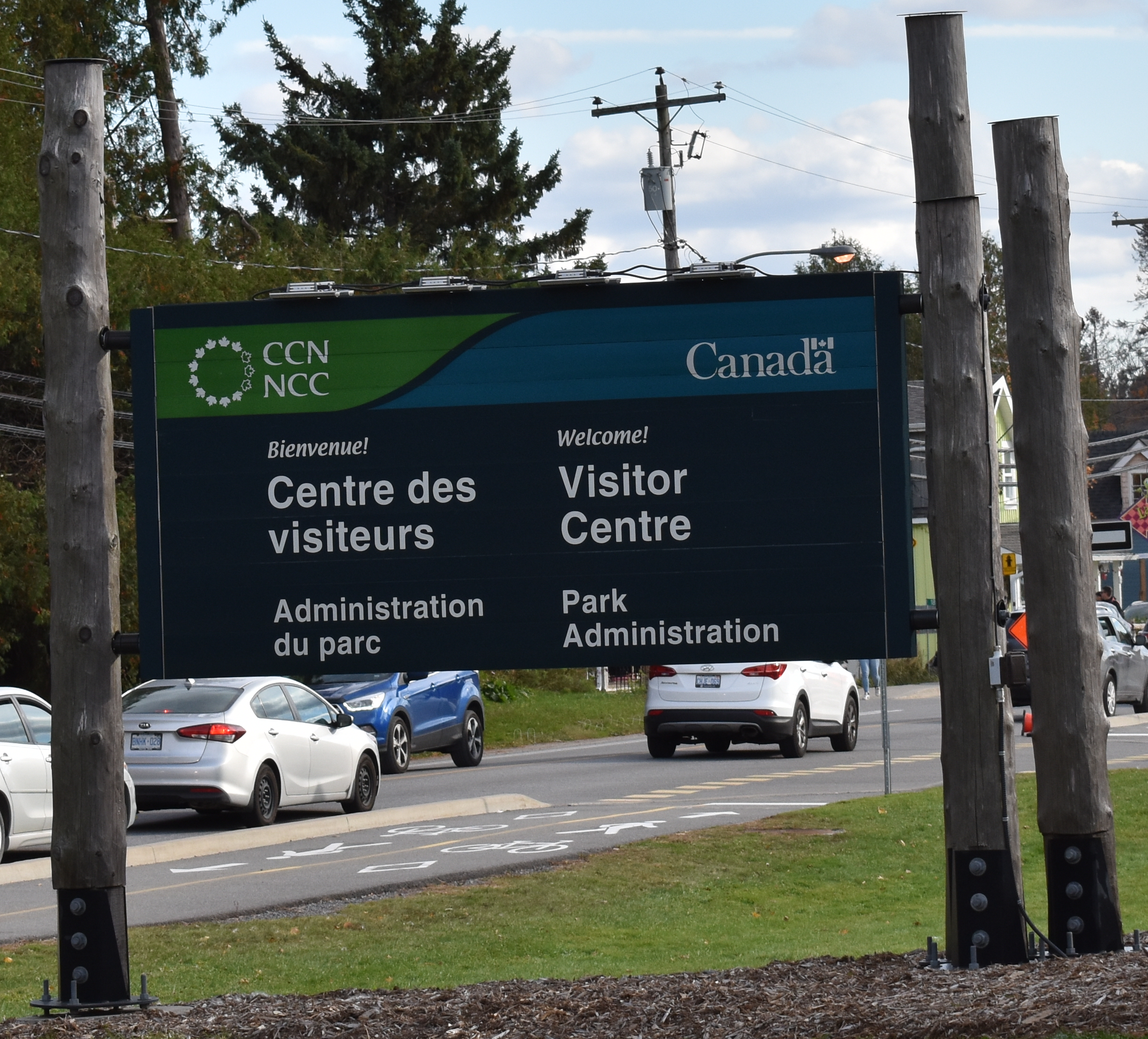 Gatineau Park in October 2018